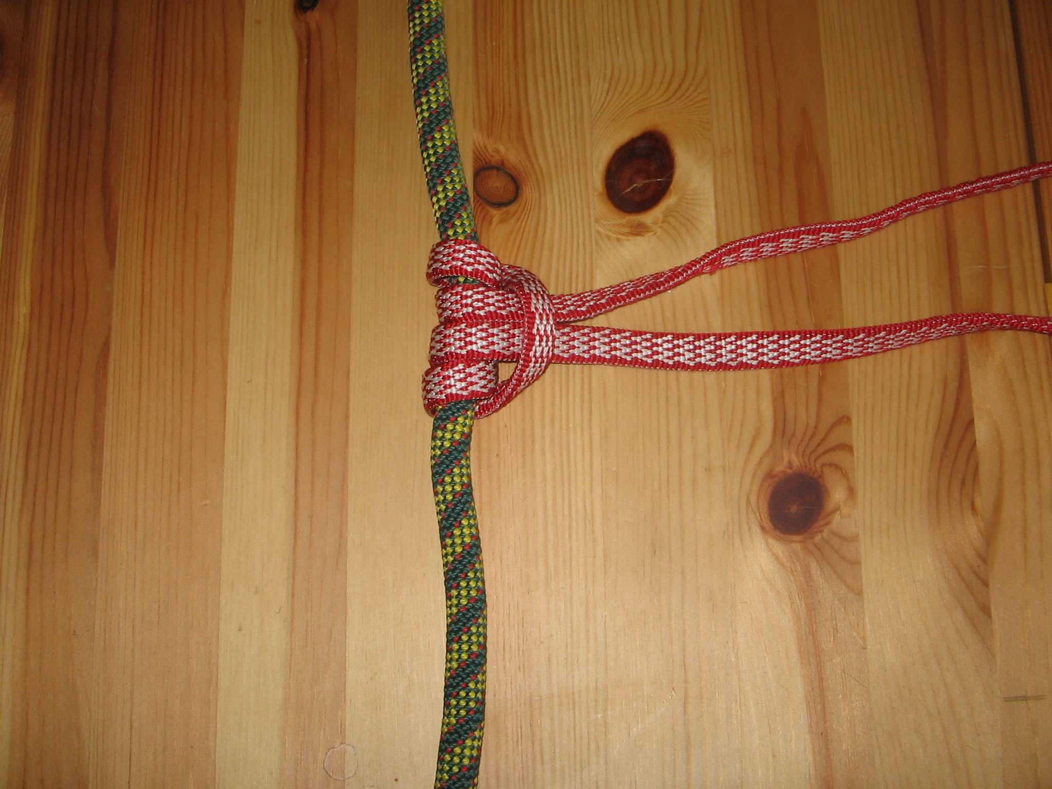 How to tie a Prusik knot. Step 4. This setup is potentially dangerious in a climbing situation. Prusiks are generally tied out of cord, not webbing, since cord has much better holding power and is less likely to jam. More importantly Spectra and Dynema have a low melting point and should never be exposed to friction. Also, these materials are somewhat slippery making them less useful in knots.